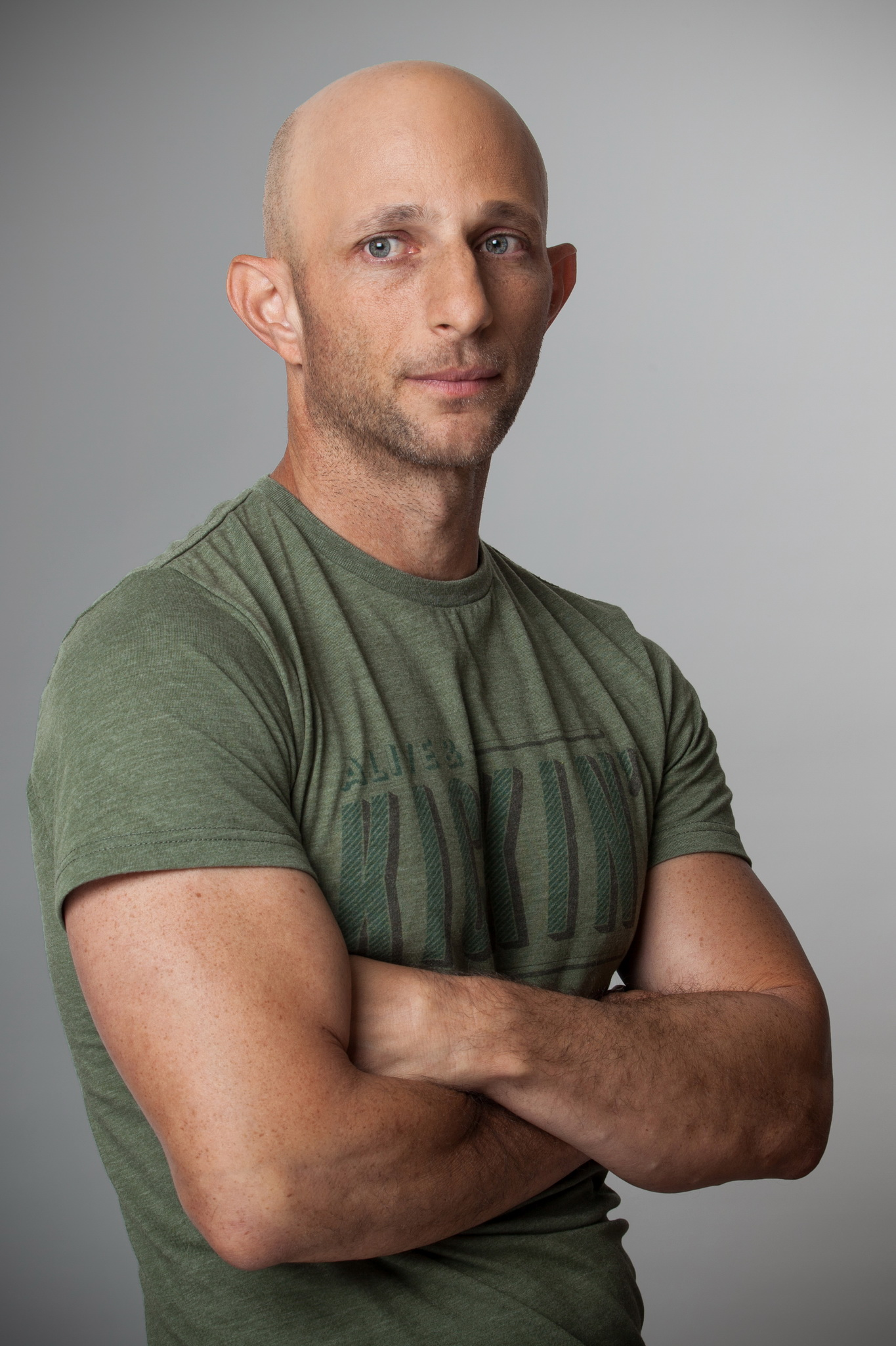 Dror Rafael 2016 Photo by: Nitzan Hafner